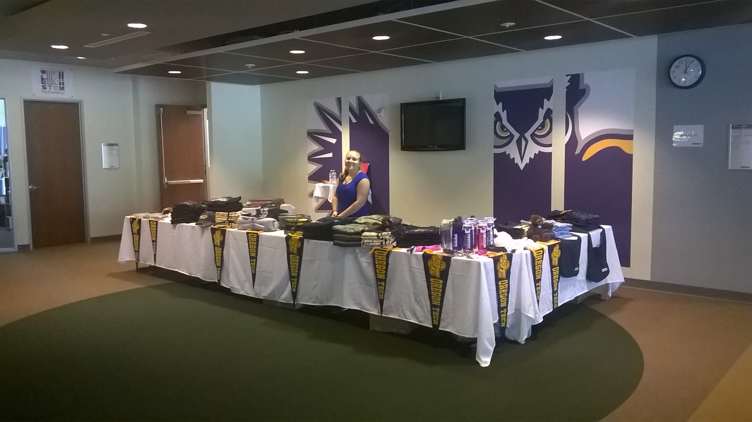 Temporary Oregon Tech Wilsonville Bookstore on the second floor.